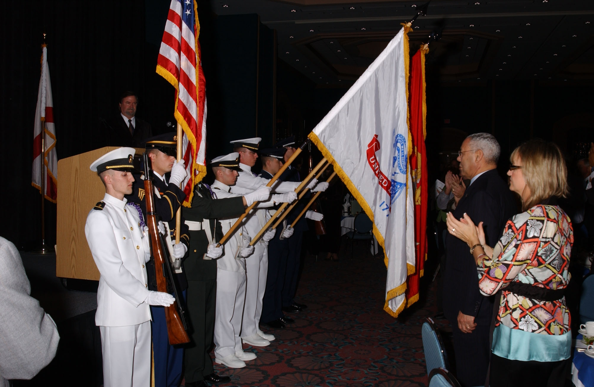 Company E-16, Pershing Rifles, Color Guard, Colin Powell